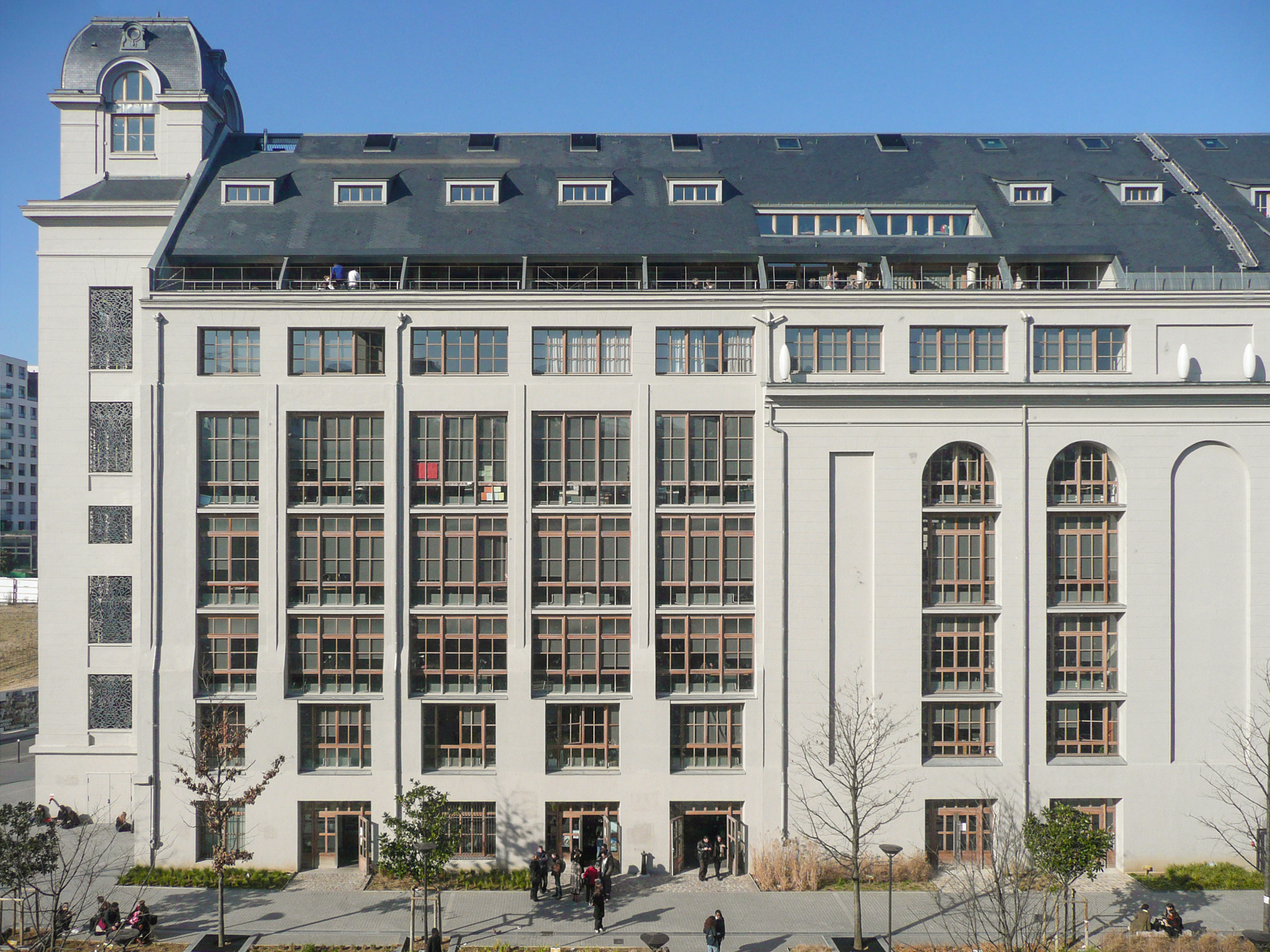 The "Grands Moulins" in Paris 13, host of the University Paris Diderot